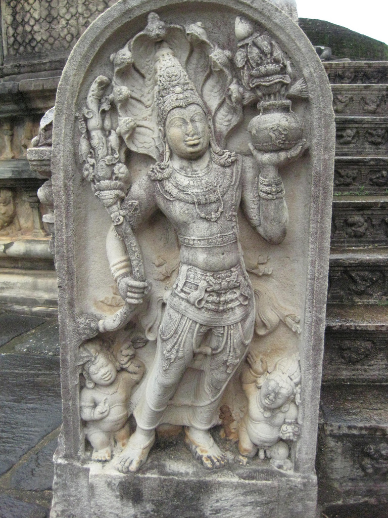 The final Moonstone variety